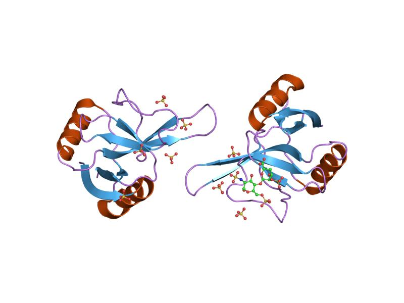 Cartoon representation of the molecular structure of protein registered with 2brs code.